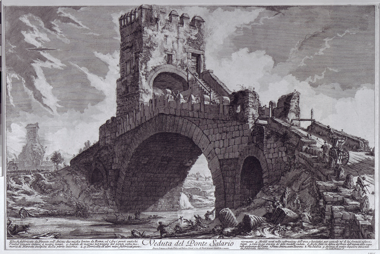 Engraving of the Ponte Salario over the Aniene river by Piranesi. The bridge was then still located outside of the city limits of Rome, Italy.